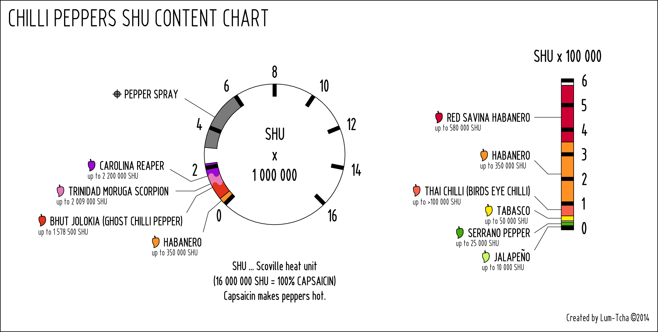 Chilli peppers SHU content chart.